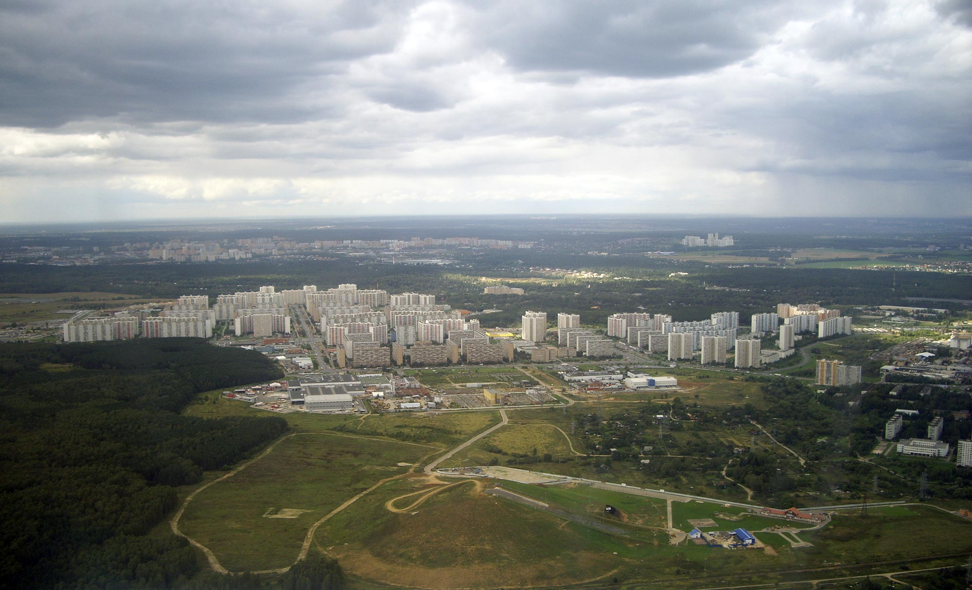 Novo Peredelkino Moscow town district. Aerial view.